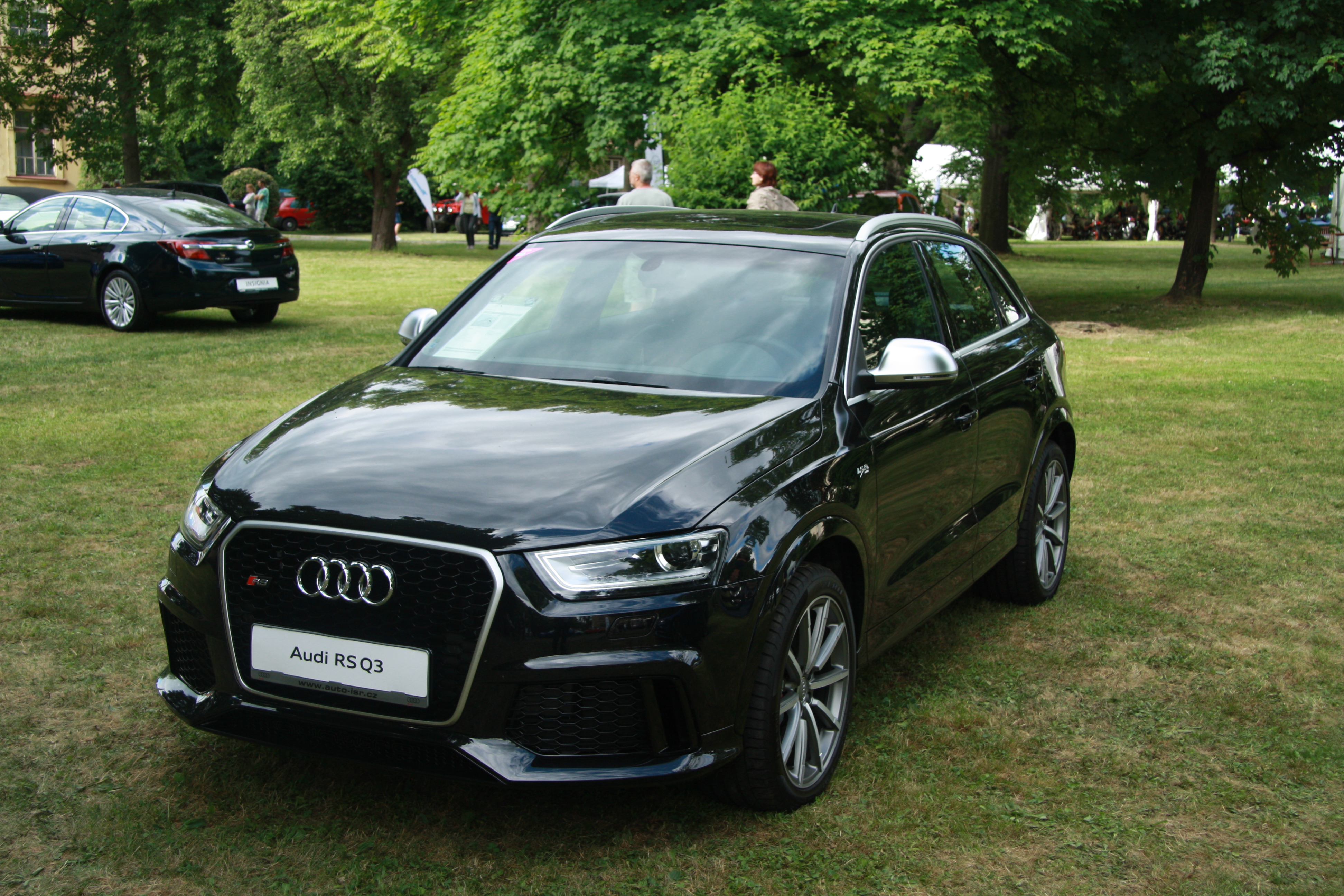 Audi RS Q3 at Legendy 2014.